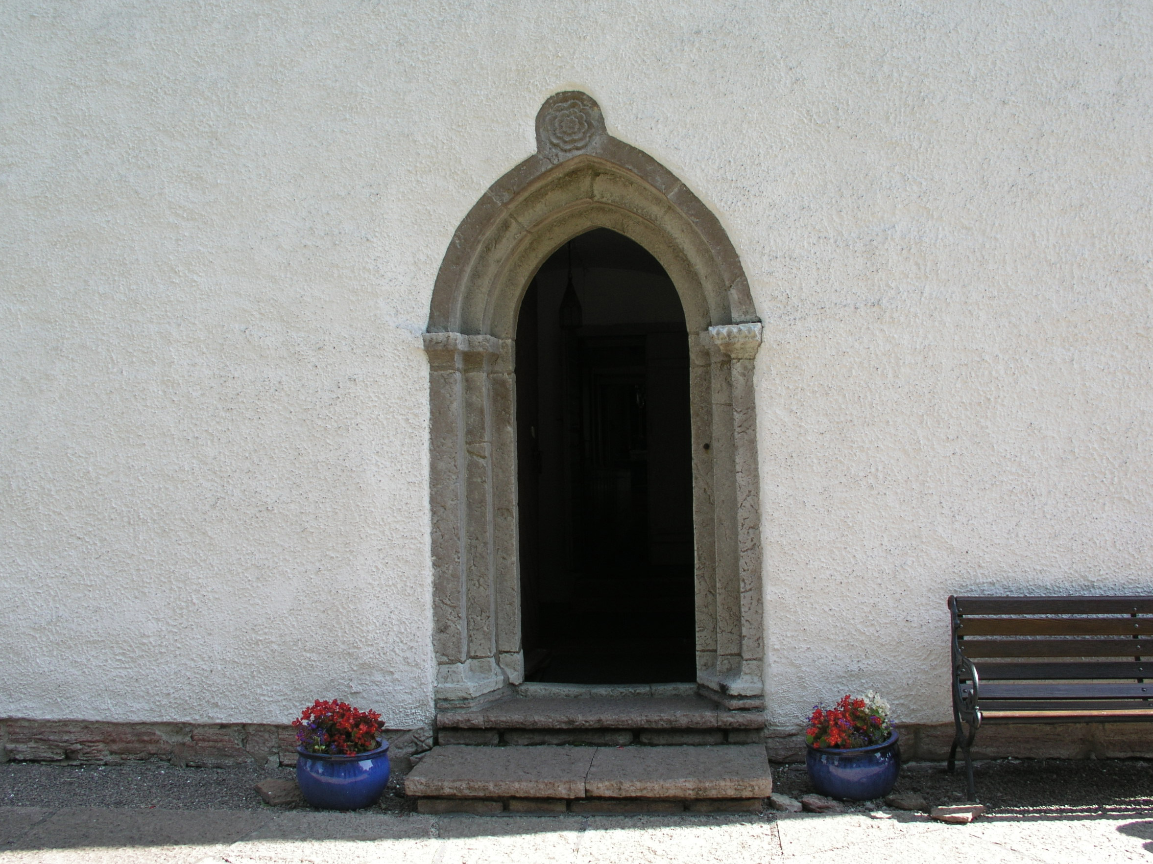 Vickleby church on the isle of Öland.